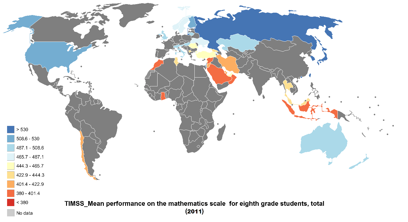 Math Results for 8th grades in Trends in International Mathematics and Science Study for 2011